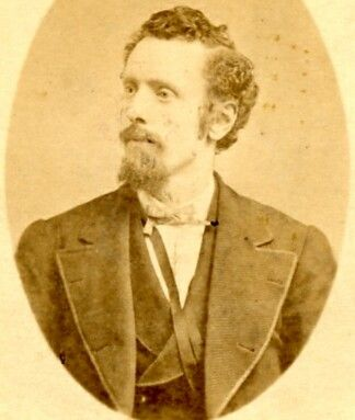 Leo Daft